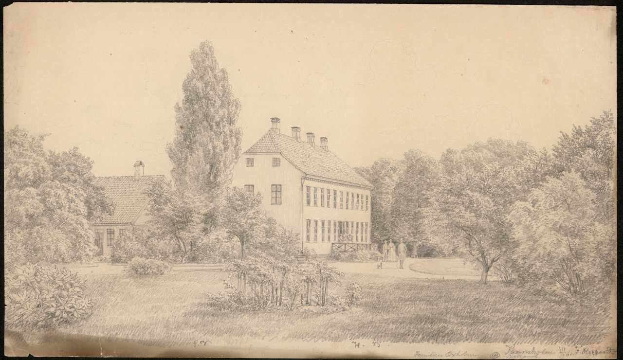 The manor house Tårnholm near Slagelse in Denmark